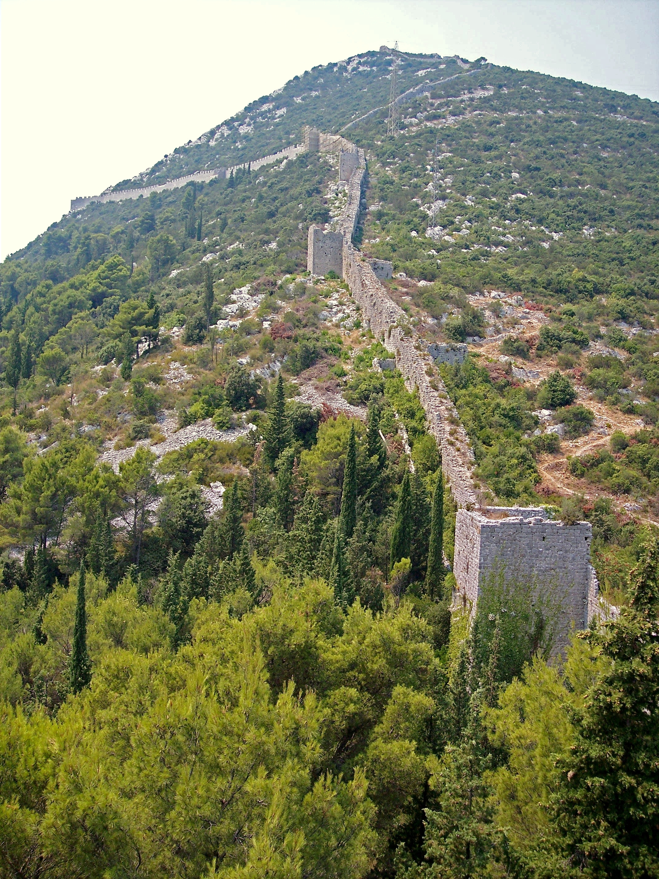 Fortifications at Ston (Croatia)